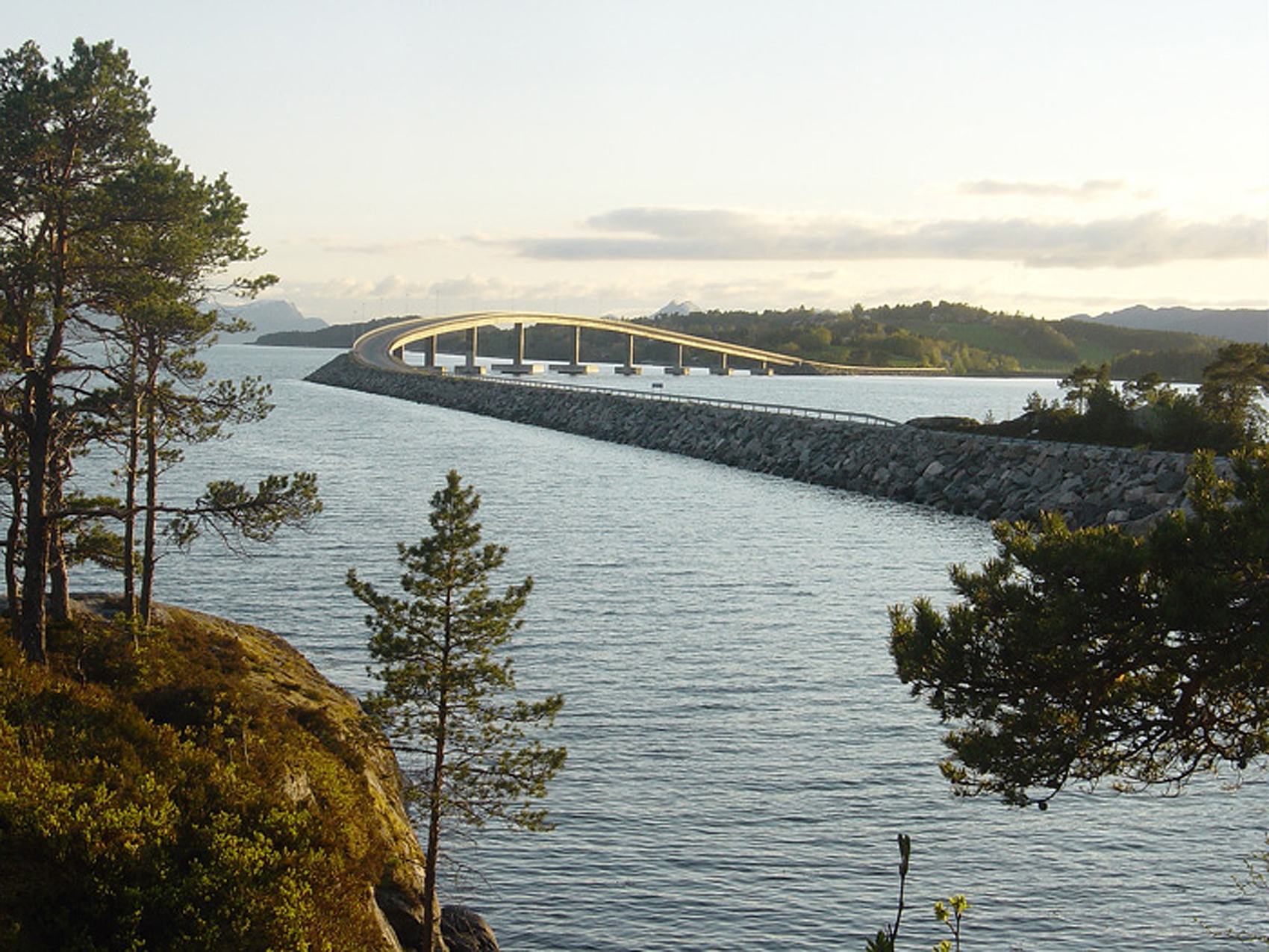 Molde and the Bolsøysundbrua